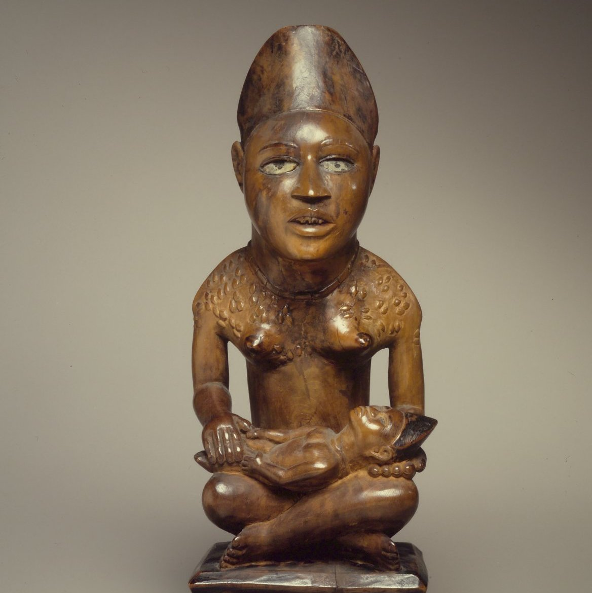 Seated woman carved in wood holding a child on crossed legs. Eyes with inset mirrors; teeth mutilated. Necklace and girdle carved in place. Shoulders, breasts and back covered with groups of keloids, illustrating a reaction from trauma. The object is fragile due to active cracks.